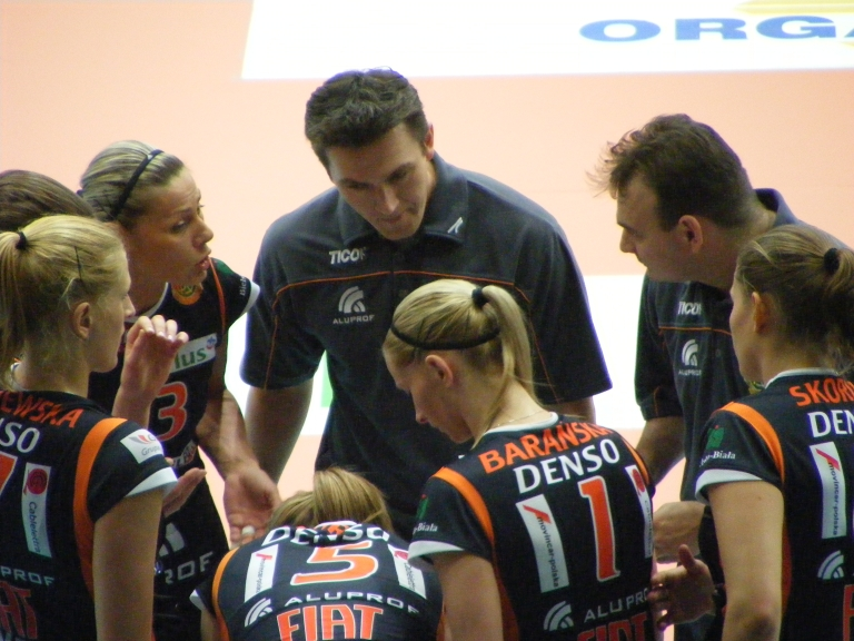 Aluproof Bielsko-Biała: Okuniewska, Świeniewicz, Horka, Barańska, Skorupa and trainer Mariusz Wiktorowicz